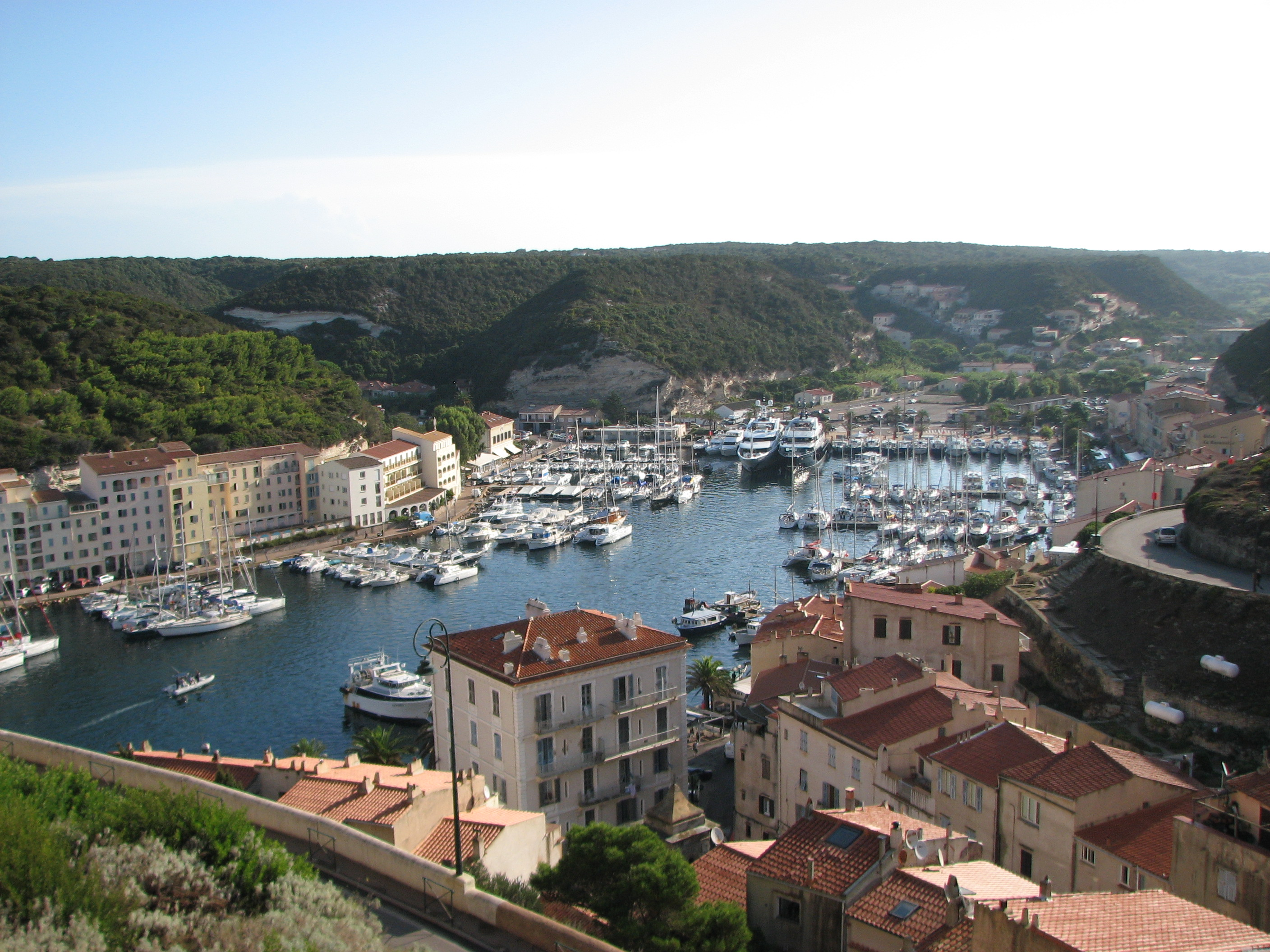 Bonifacio harbour